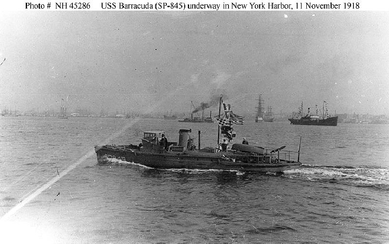 United States Navy patrol boat USS Barracuda (SP-845) flying signal flags and the National Ensign in New York Harbor to celebrate on the day of the Armistice ending World War I